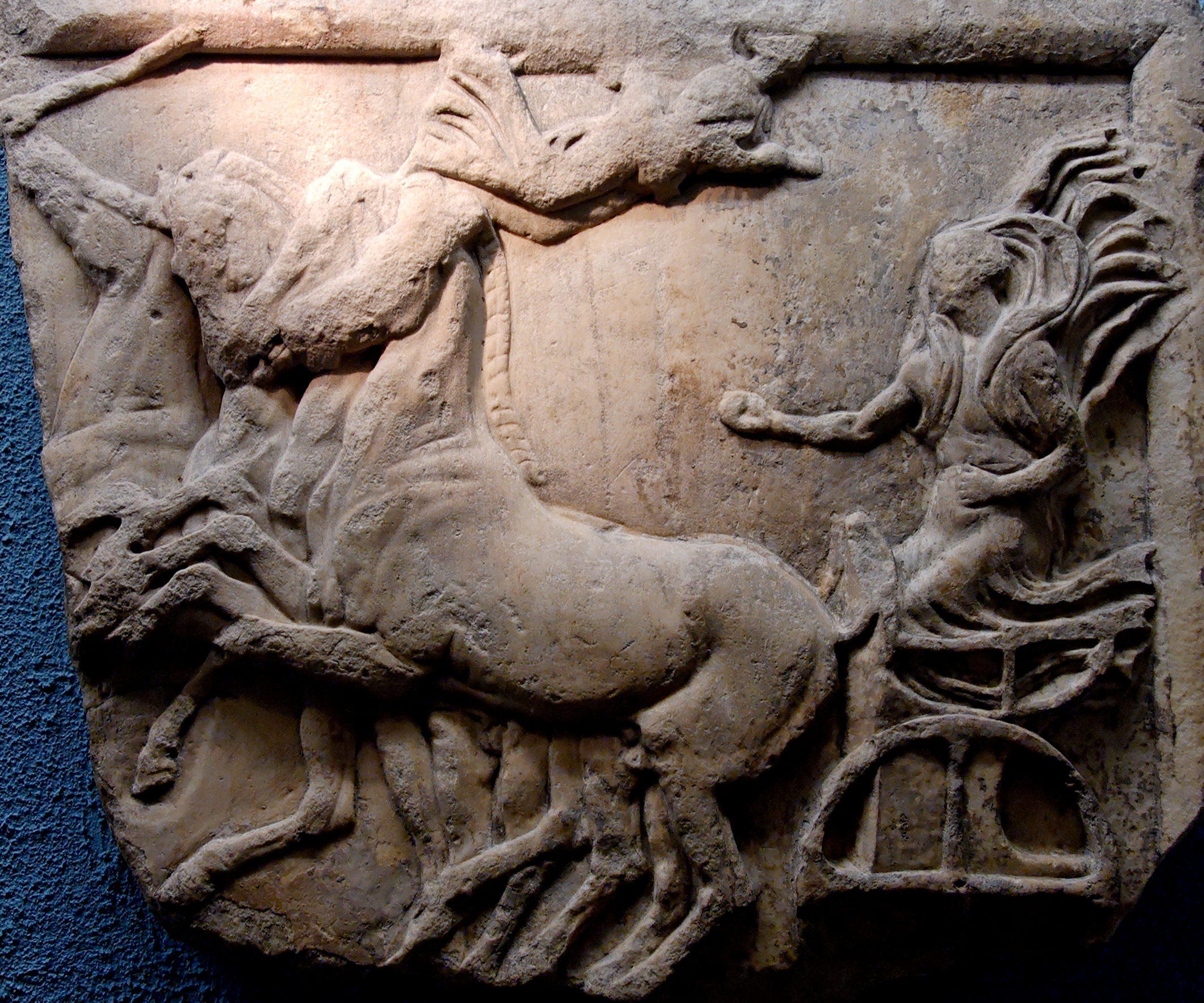 Winged Nike (Victory) flying down to crown a charioteer with a laurel crown, votive relief dedicated to Athena. Marble, made in Athens, ca. 425 BC. From Athens. Another fragment of the same votive relief is stored in the British School at Athens.